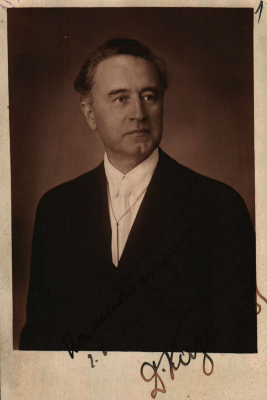 Bulgarian actor Dragomir Kazakov (1866-1948)